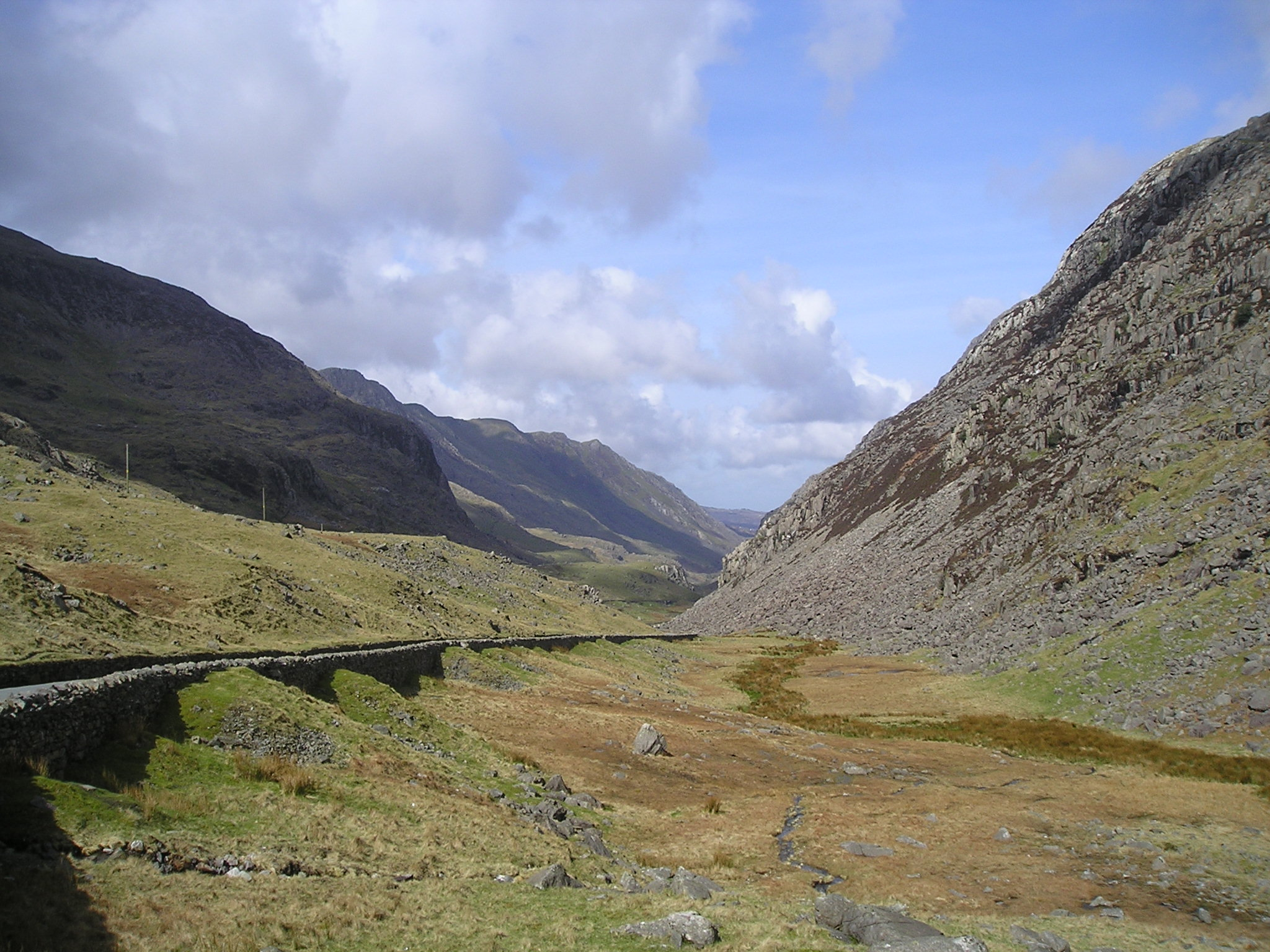 Taken by me, Noel Walley on 12/04/2005